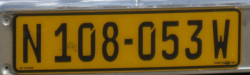 License plate of Namibia